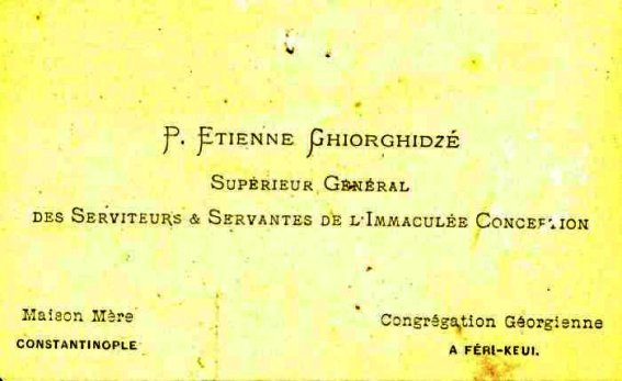 Visiting card of Etienne Ghiorghidzé. He was head priest of Georgian Catholic Church in Constantinople at 1892-1898 .